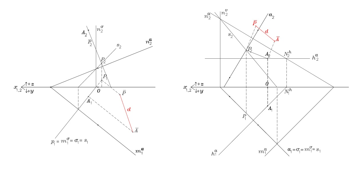 От точка до права